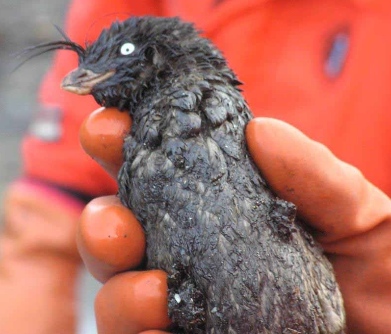 Oiled Crested Auklet (Aethia cristatella) from Alaska. Taken after the cargo vessel M/V Selendang Ayu spilt oil in late 2004. US Fish and Wildlife Service